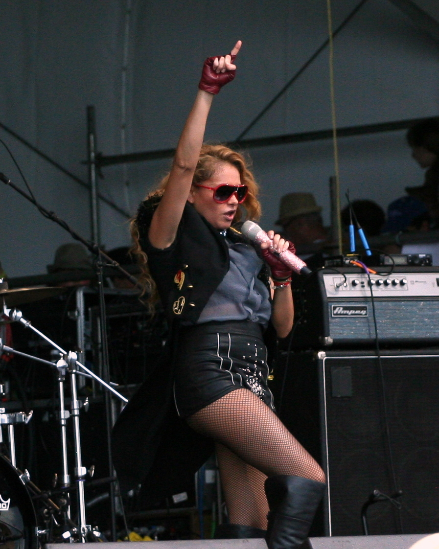 Paulina Rubio at Jazz Fest 2012 Congo Square Stage Saturday, May 5